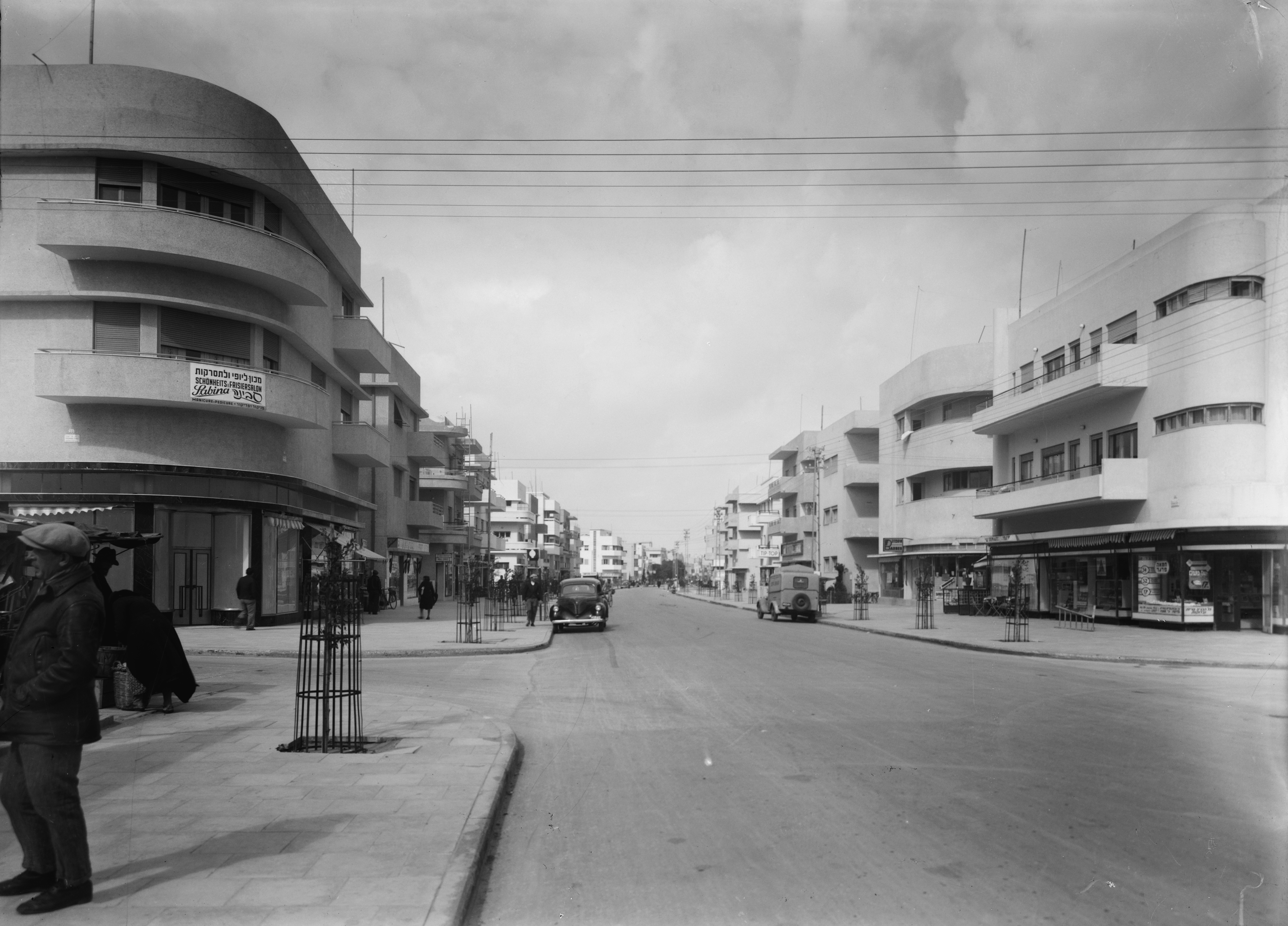 Dizengoff Street looking north, with modernist buildings, Tel Aviv.